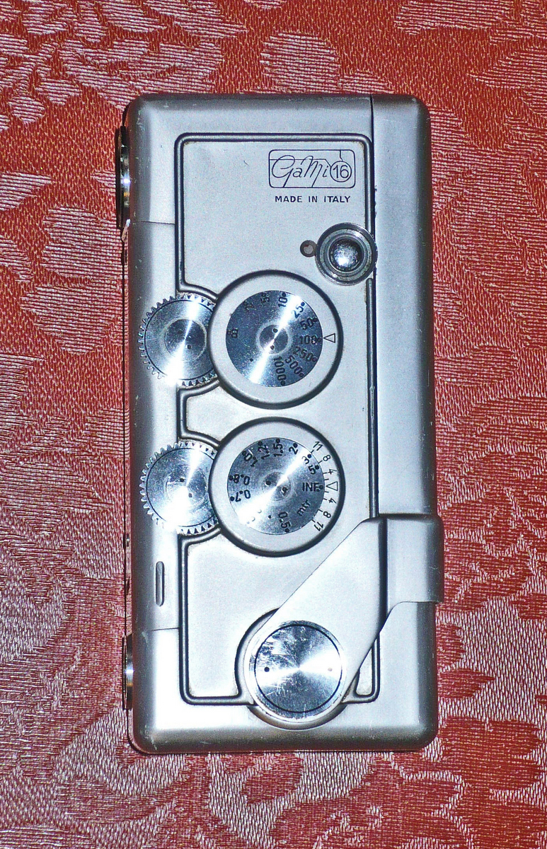 Gami 16 shutter and focusing dial